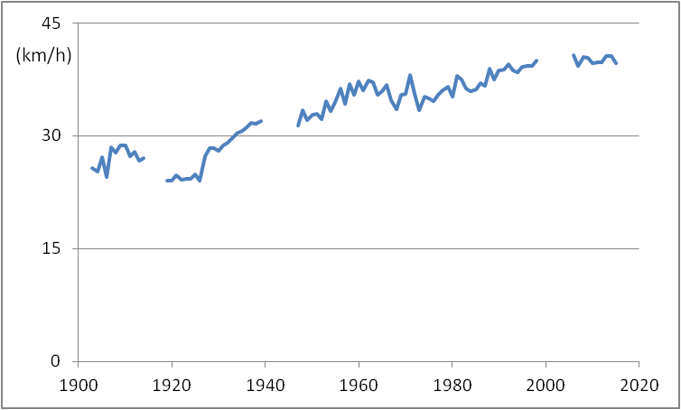 Tour de France - average speed of the winner